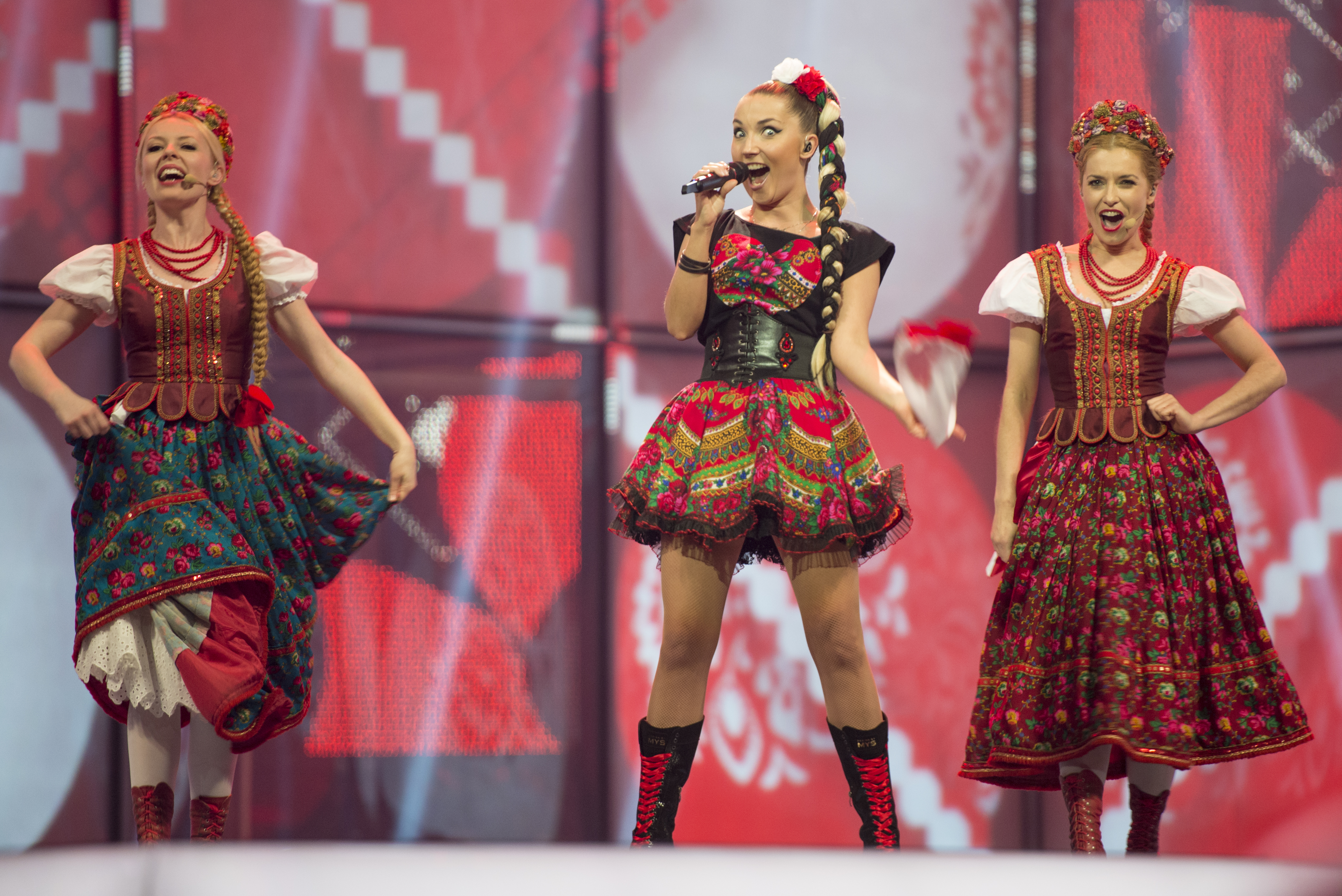 Donatan and Cleo representing Poland with the song "My Słowianie" during the first dress rehearsal of the second semi final of the Eurovision Song Contest 2014 Copenhagen. (Help translate this text)